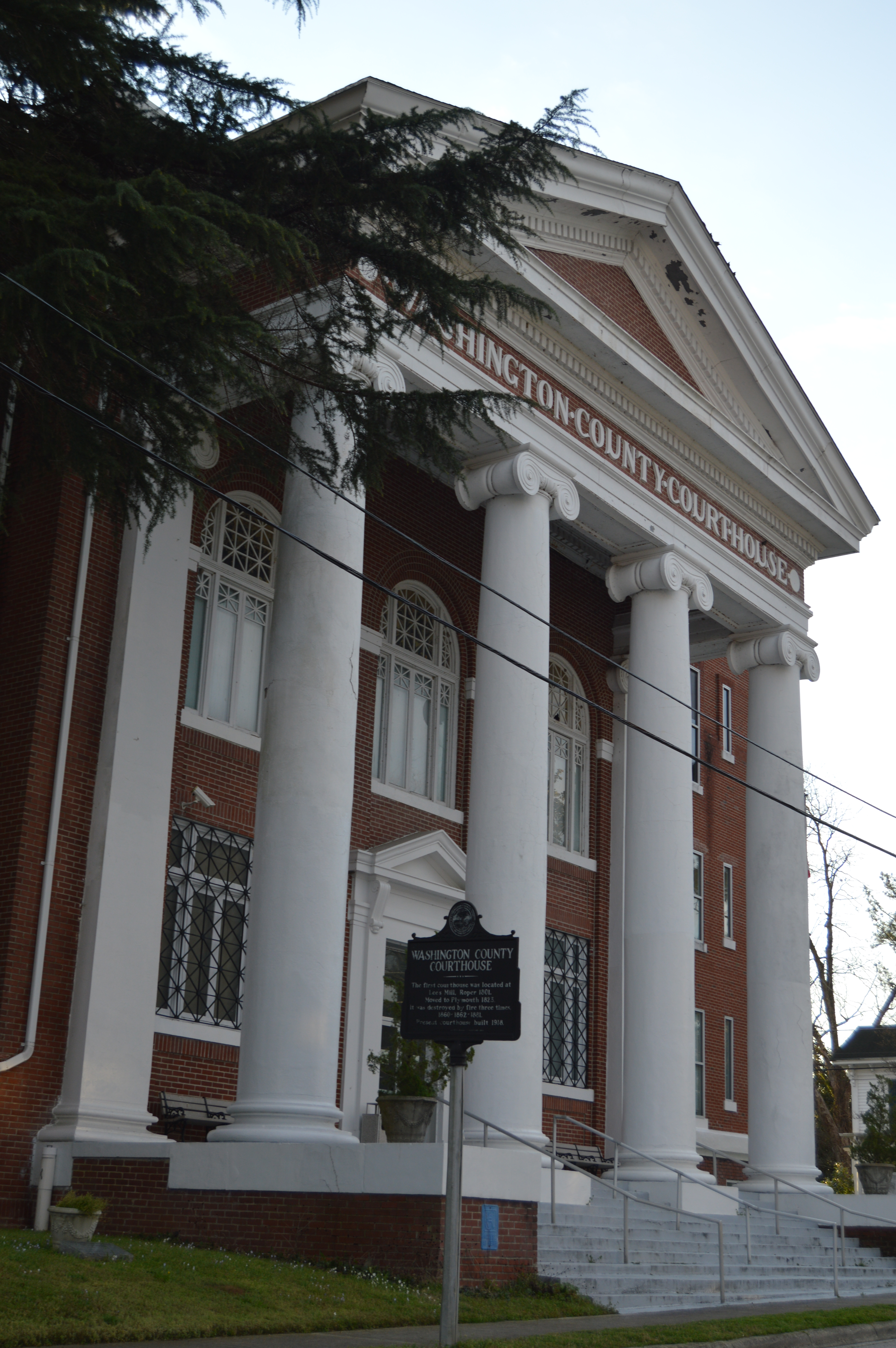 Portico of the Washington County Courthouse, located on Adams Street at Main Street in Plymouth, North Carolina, United States. Built in 1918, it is listed on the National Register of Historic Places.